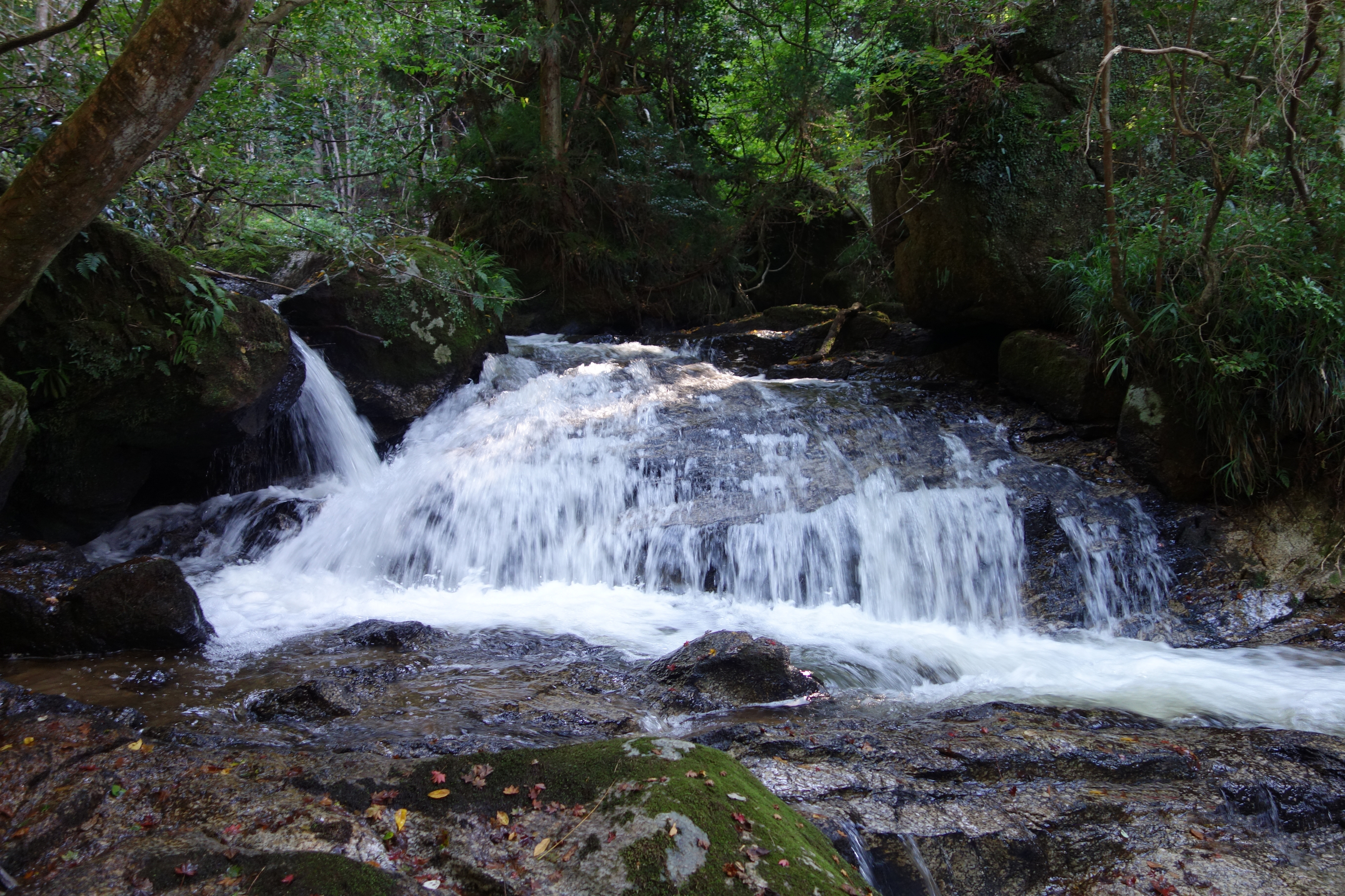 7.Iwashidare no taki(waterfall) in Kōyama, Shigaraki, Koka, Shiga, Japan